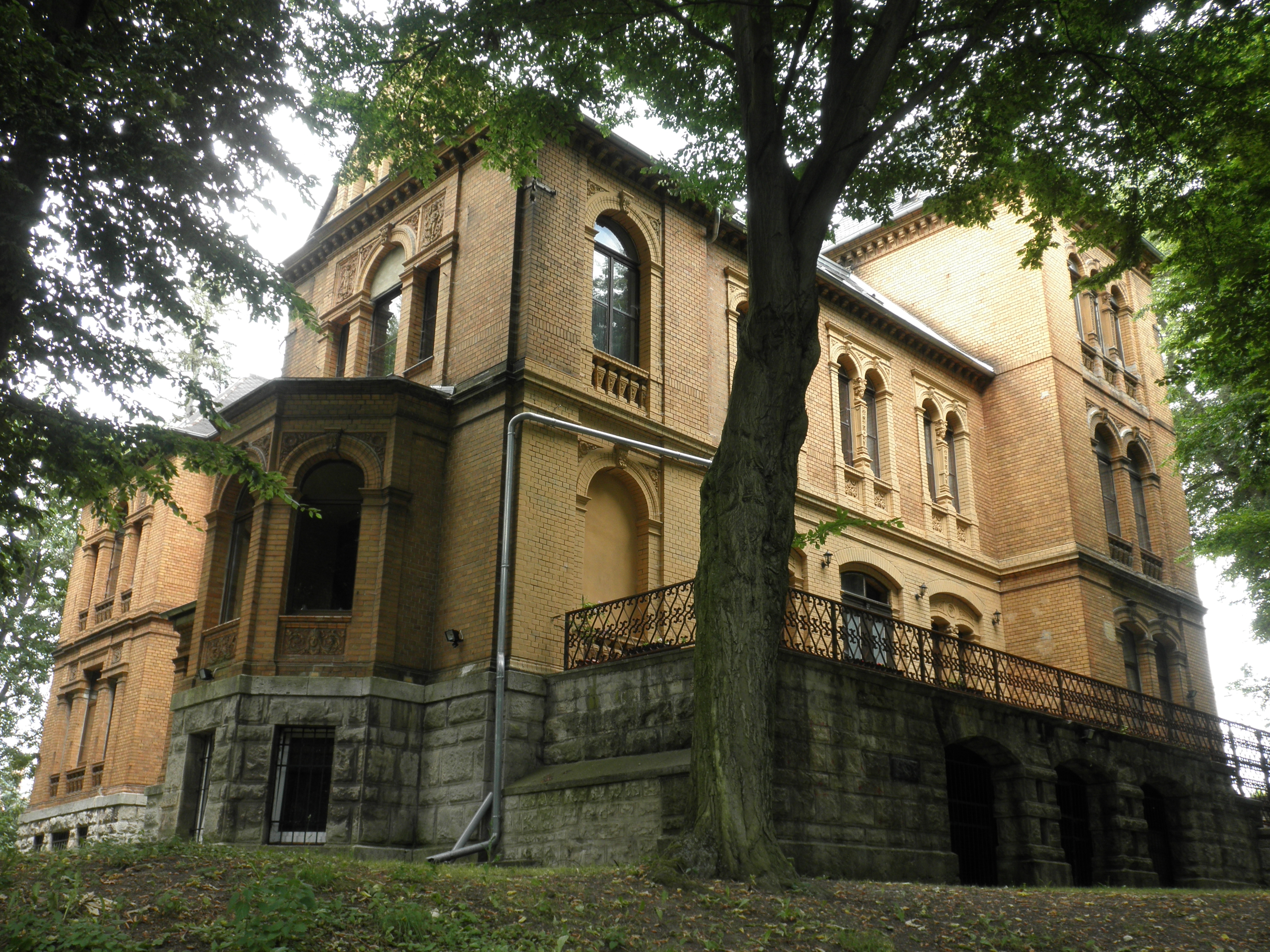 Castle in Eckstedt (Thuringia)